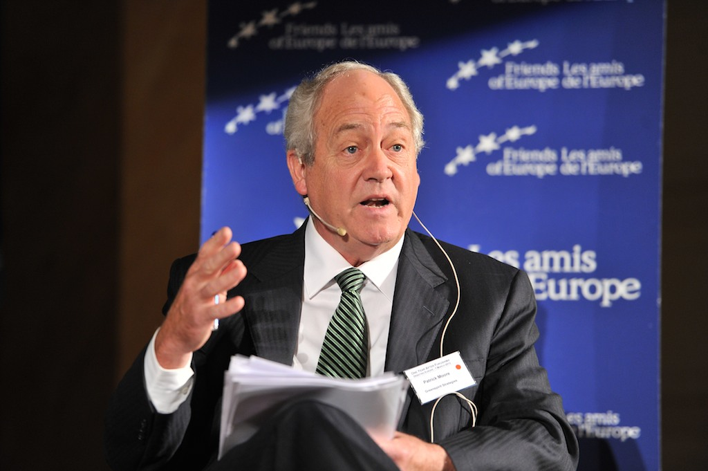 Friends of Europe - One year after Fukushima: The future of nuclear energy in Europe